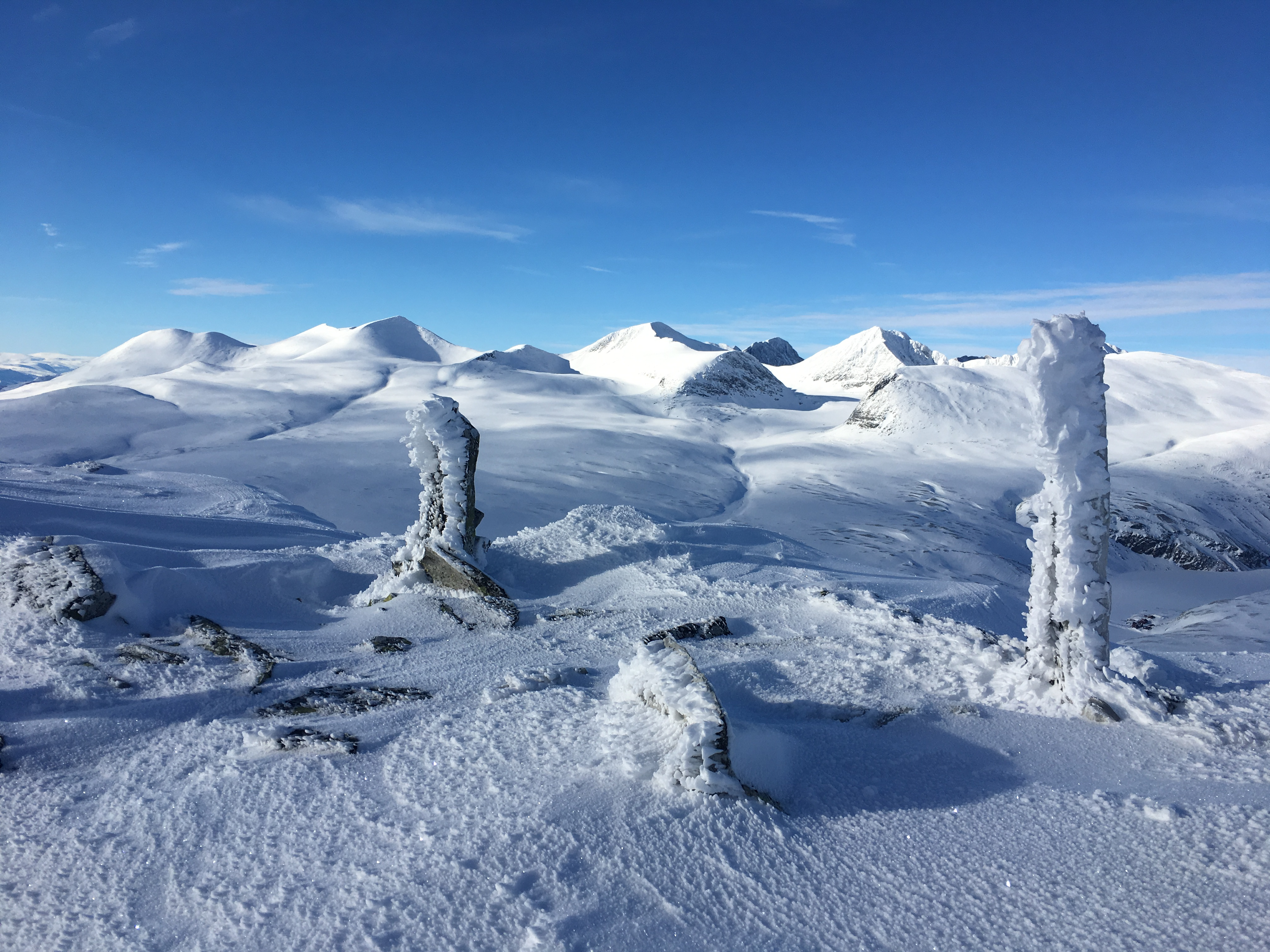 View from Illmannhø, 1721 moh in Rondane Nasjonalpark, Norway